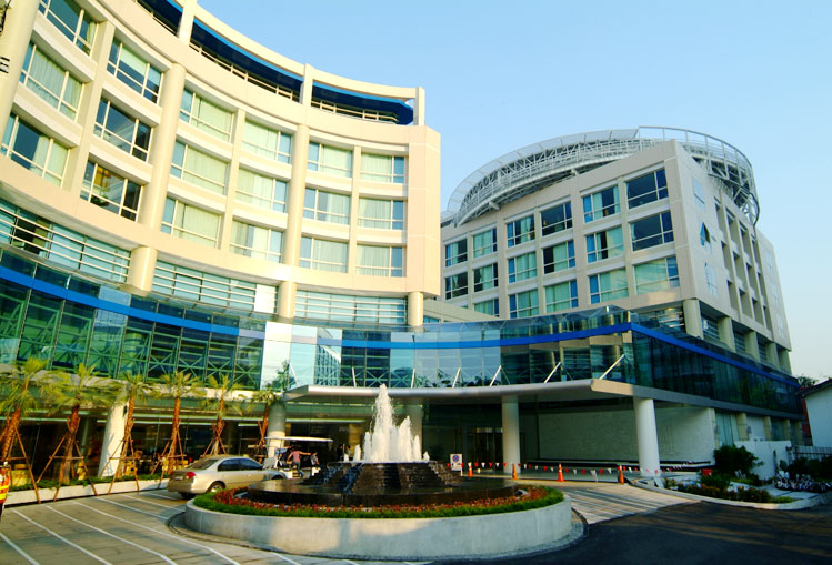 Bangkok International Hospital